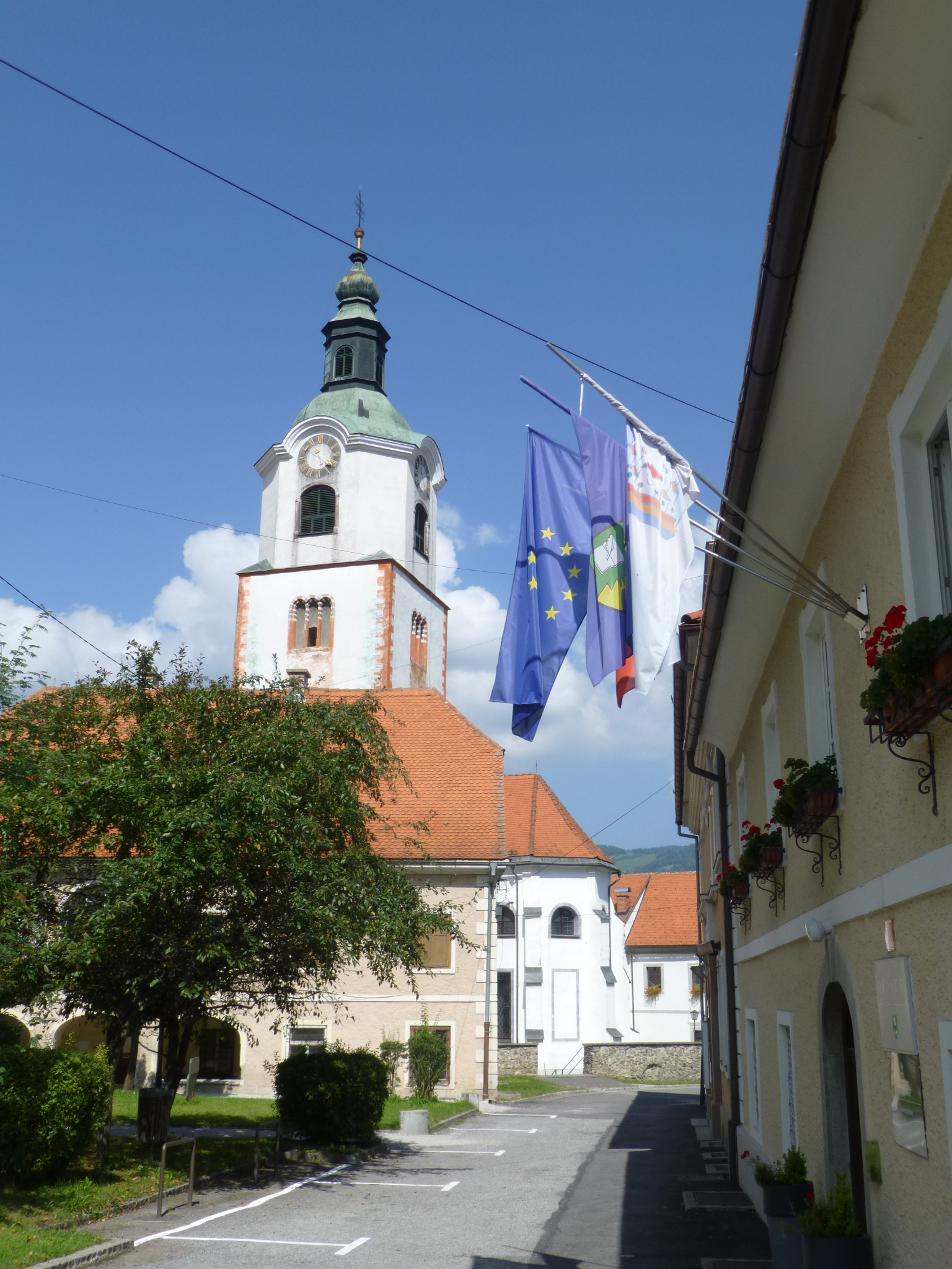 Tower of the Mary Church of Ruše. Probably the town-hall in shadow (flags). Slovenien Styria (Maria-Rast)